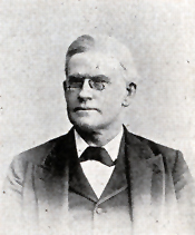 George H. Noonan, US Representative from Texas